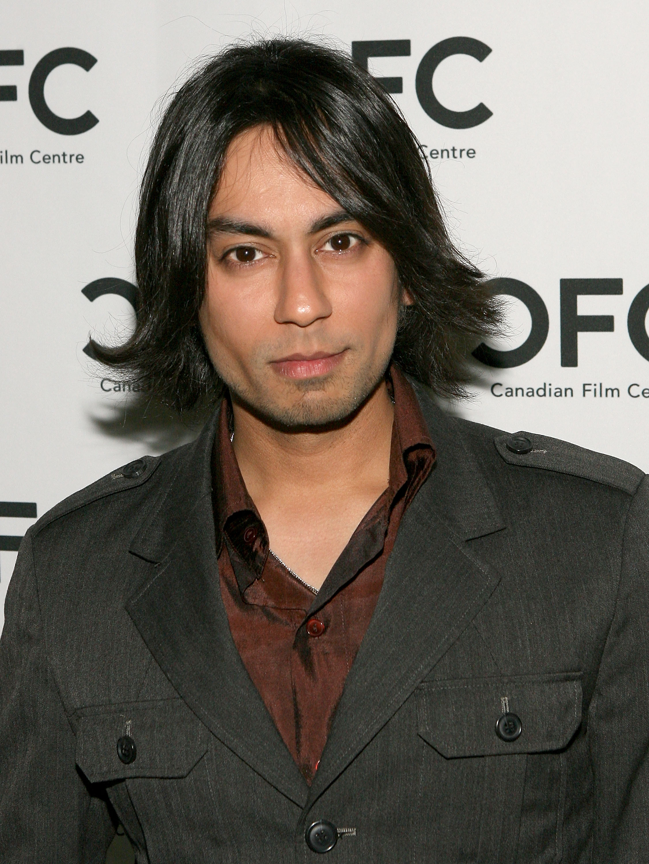 BEVERLY HILLS, CA - MARCH 09: Actor Vik Sahay attends The Canadian Film Centre cocktail reception celebrating the Telefilm Canada Features Comedy Lab held at Avalon Hotel on March 9, 2011 in Beverly Hills, California. (Photo by Jesse Grant/WireImage)